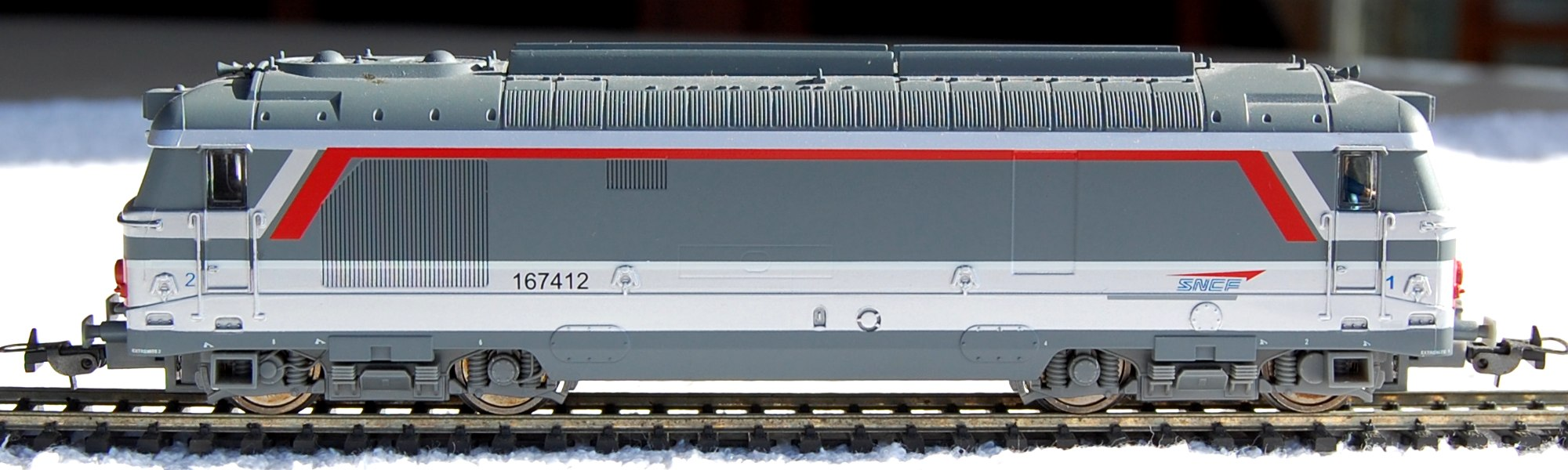 Piko scale model of French Diesel locomotive BB 167400.